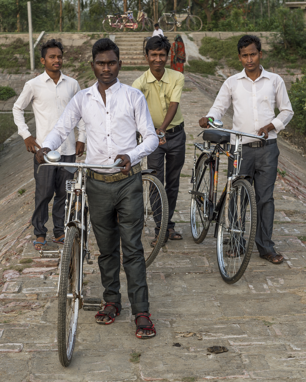 This is a team of national missionaries with their bicycles working in a remote region of Asia.